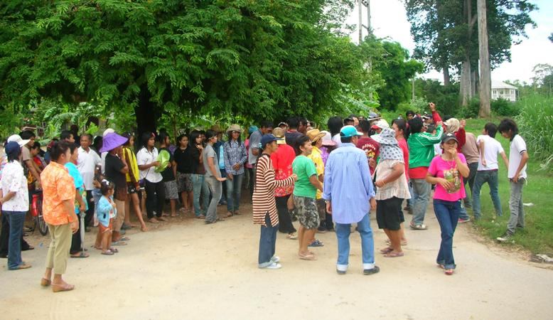 Thai-chinese (Hakka) in Ban Pong District, Ratchaburi Province during a family gathering